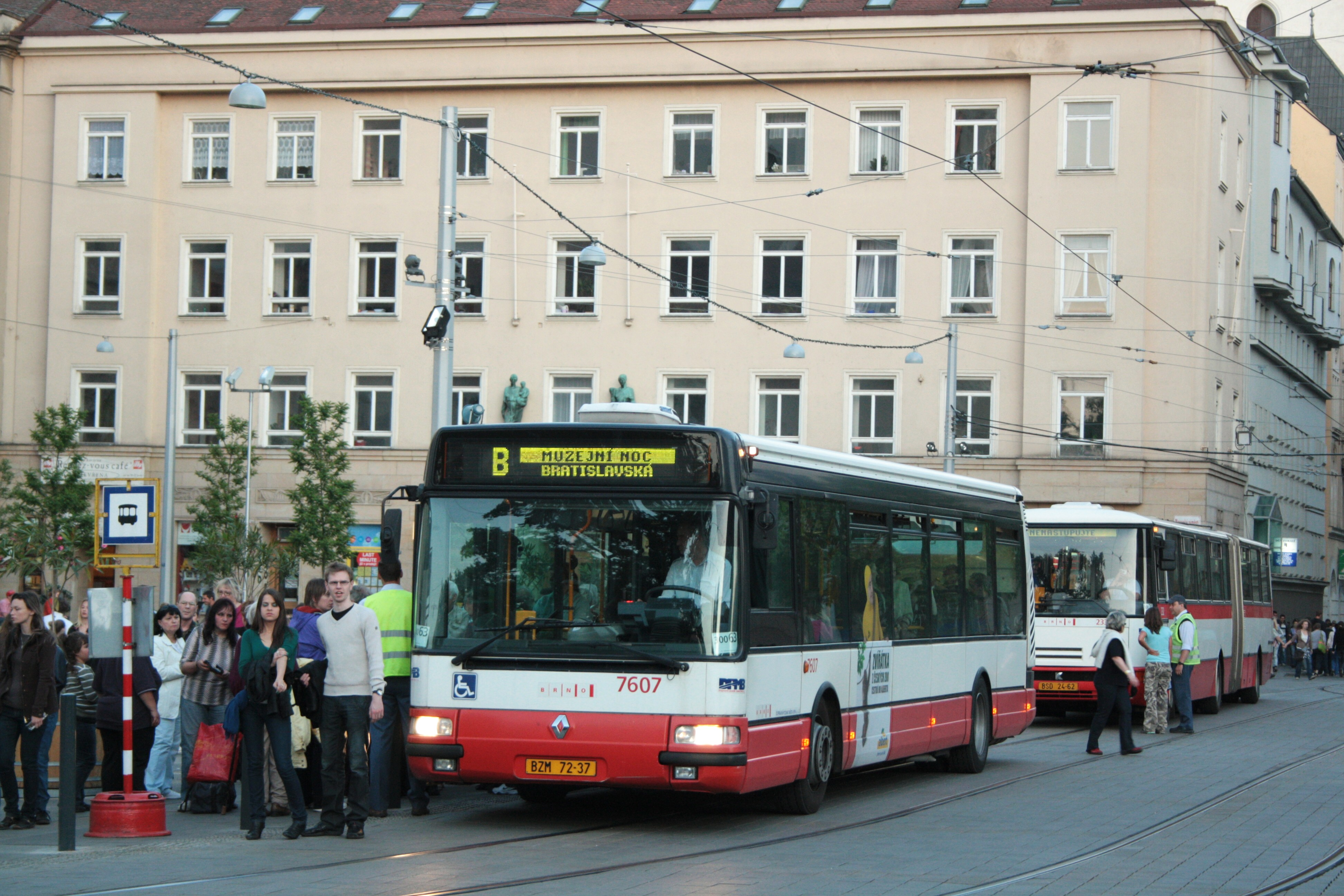 Irisbus Citybus 12M bus No. 7607 of Dopravní podnik města Brna, Brno, Czech Republic This photograph was taken with a DSLR from WMCZ's Camera grant. - Google Maps - Google Earth